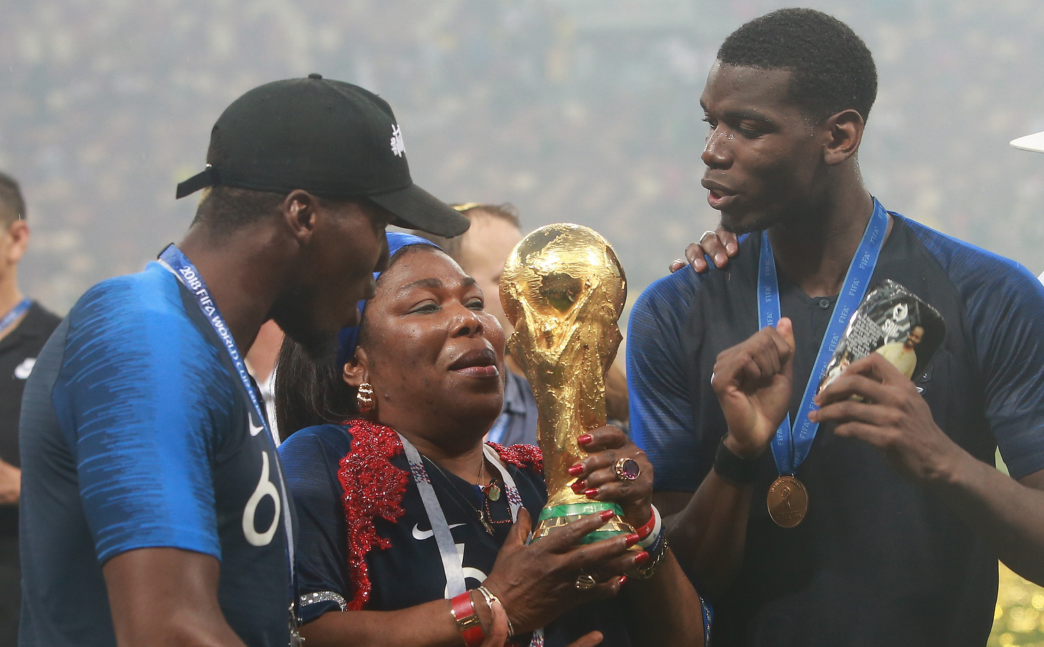 French footballer Paul Pogba and family holding the FIFA World Cup Trophy after the tournament's final match on 15 July 2018.